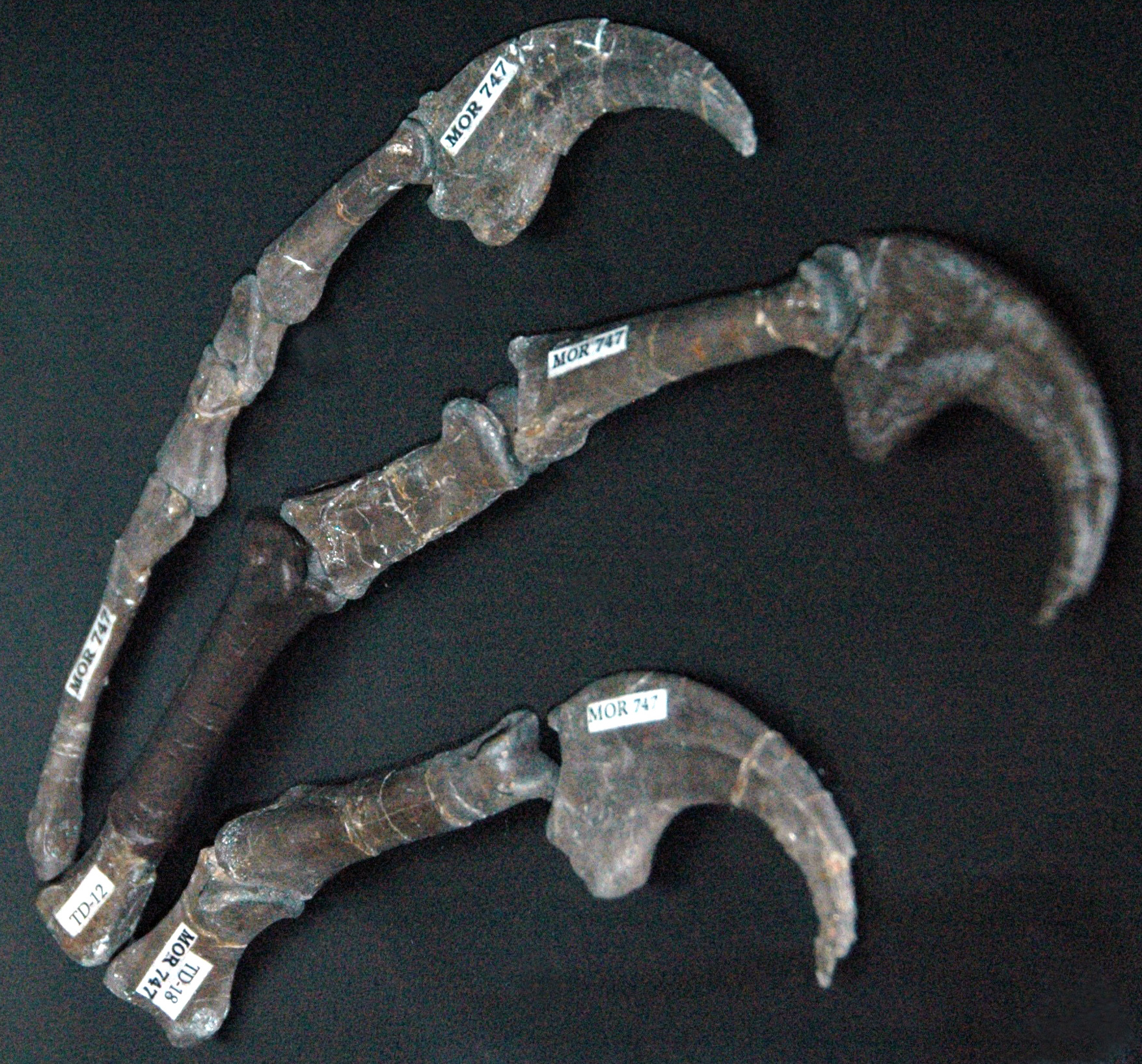 Deinonychus antirrhopus theropod dinosaur from the Cretaceous of Montana, USA (public display, MOR 747, Museum of the Rockies, Bozeman, Montana, USA). Deinonychus is a predatory dinosaur, frequently referred to by the Hollywood term "raptor". Deinonychus had multiple sharp claws on each hand (shown here) and a greatly enlarged claw on each foot, as did some other theropods like Utahraptor. Classification: Animalia, Chordata, Vertebrata, Dinosauria, Theropoda, Dromaeosauridae Stratigraphy: Cloverly Formation, Lower Cretaceous Locality: Carbon County, southern Montana, USA Theropod were small to large, bipedal dinosaurs. Almost all known members of the group were carnivorous (predators and/or scavengers). They represent the ancestral group to the birds, and some theropods are known to have had feathers. Some of the most well known dinosaurs to the general public are theropods, such as Tyrannosaurus, Allosaurus, and Spinosaurus.